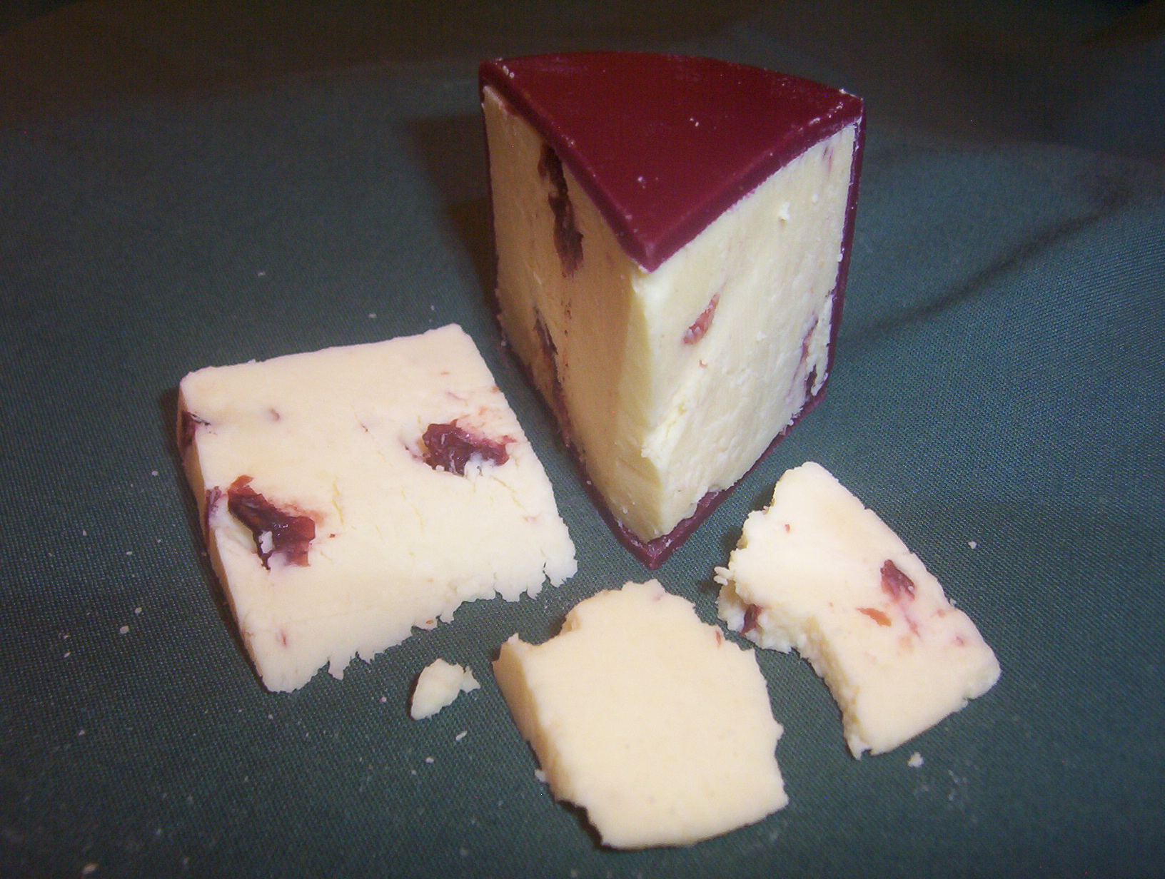 Wensleydale with cranberries cheese made in the town of Hawes in Yorkshire, England.